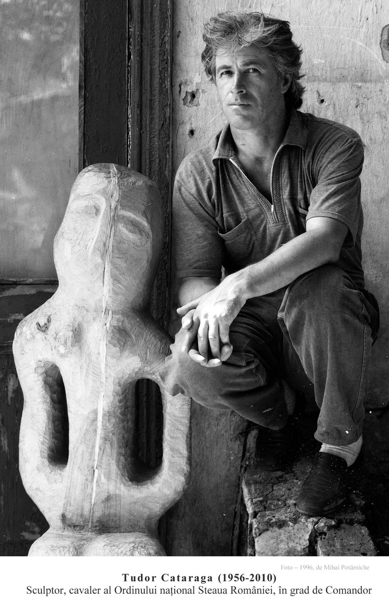 Tudor Cataraga, Knight of the National Order of the Star of Romania, in the rank of Commander